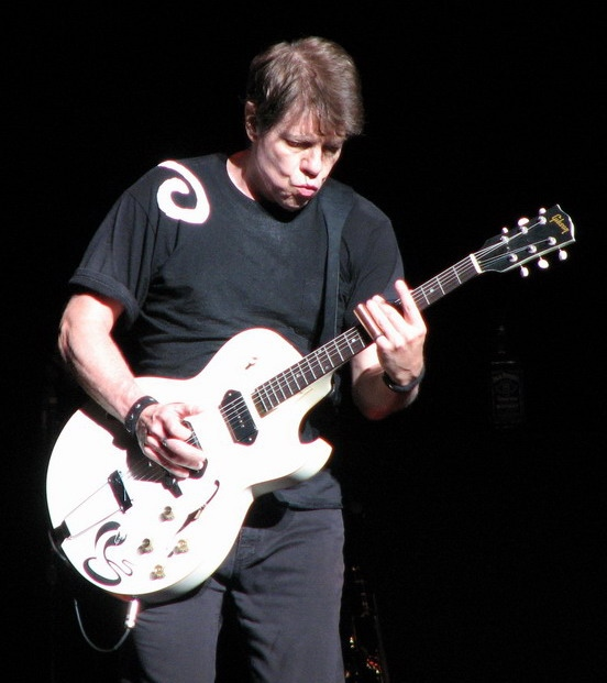 Photo by Kasra Ganjavi